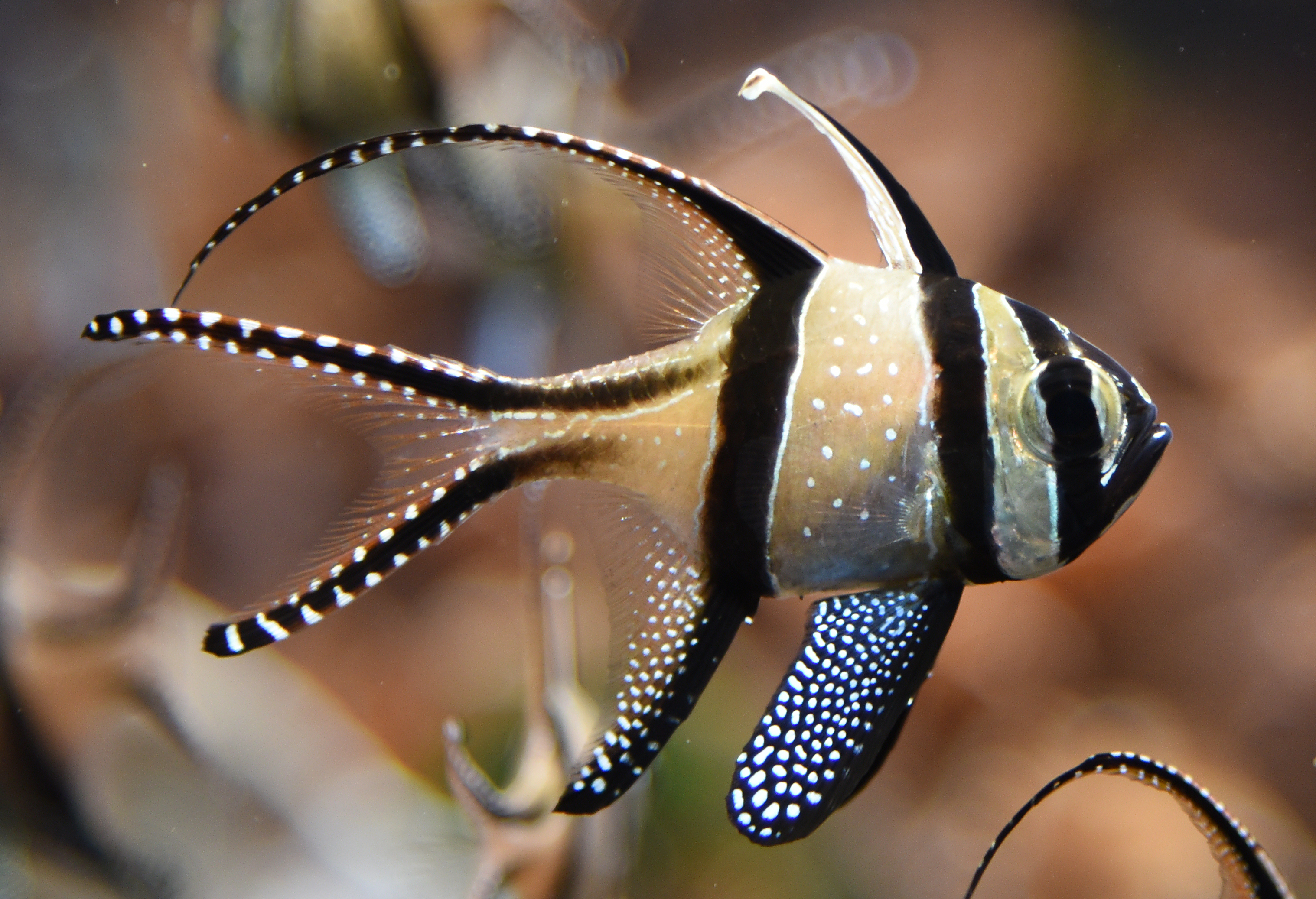 Banggai cardinalfish in the zoo in Basel